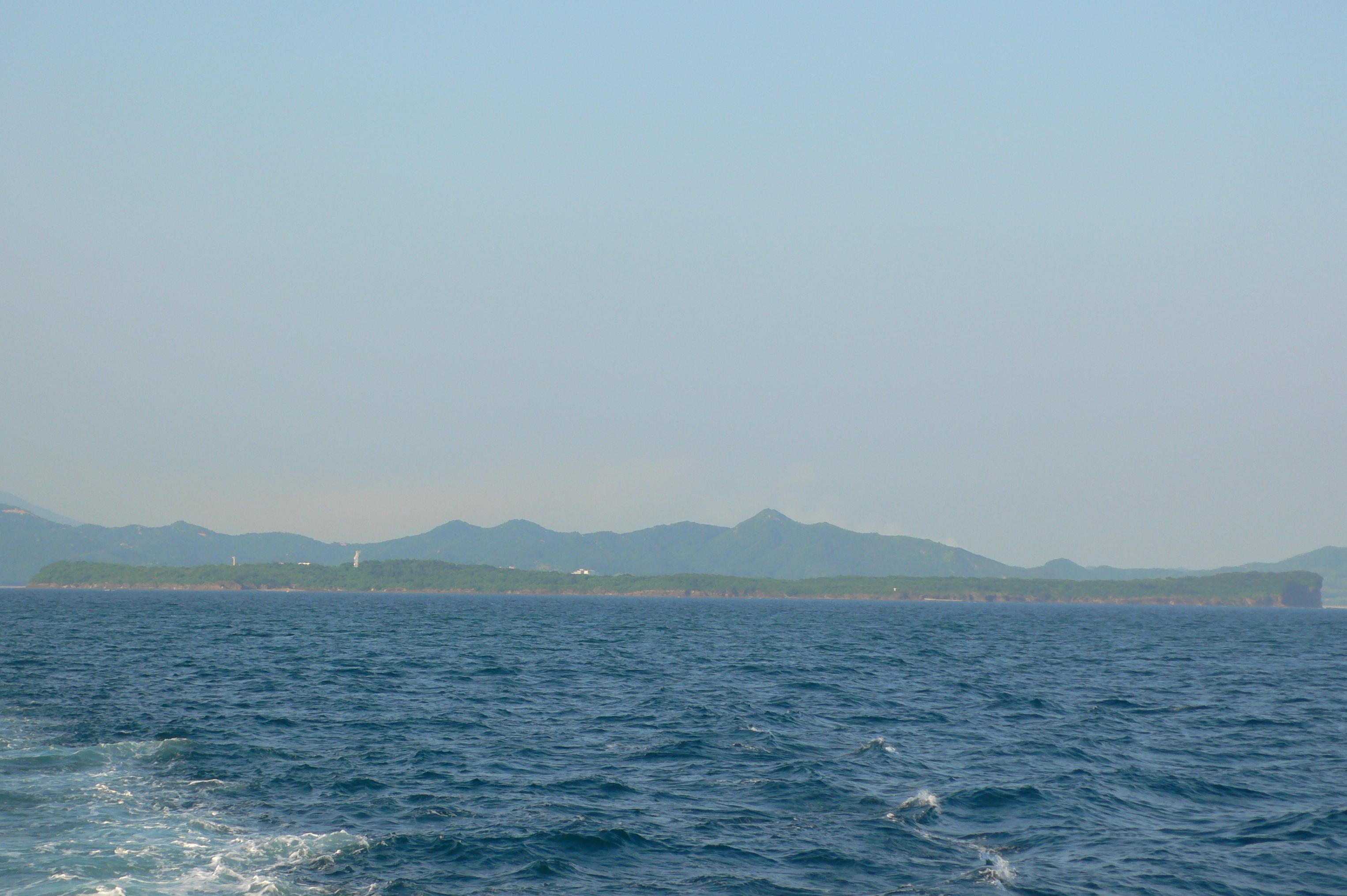 Ping Chau, an outlying island in the North-eastern part of Hong Kong.It is the only sizeable island made up of sedimentary rock in Hong Kong